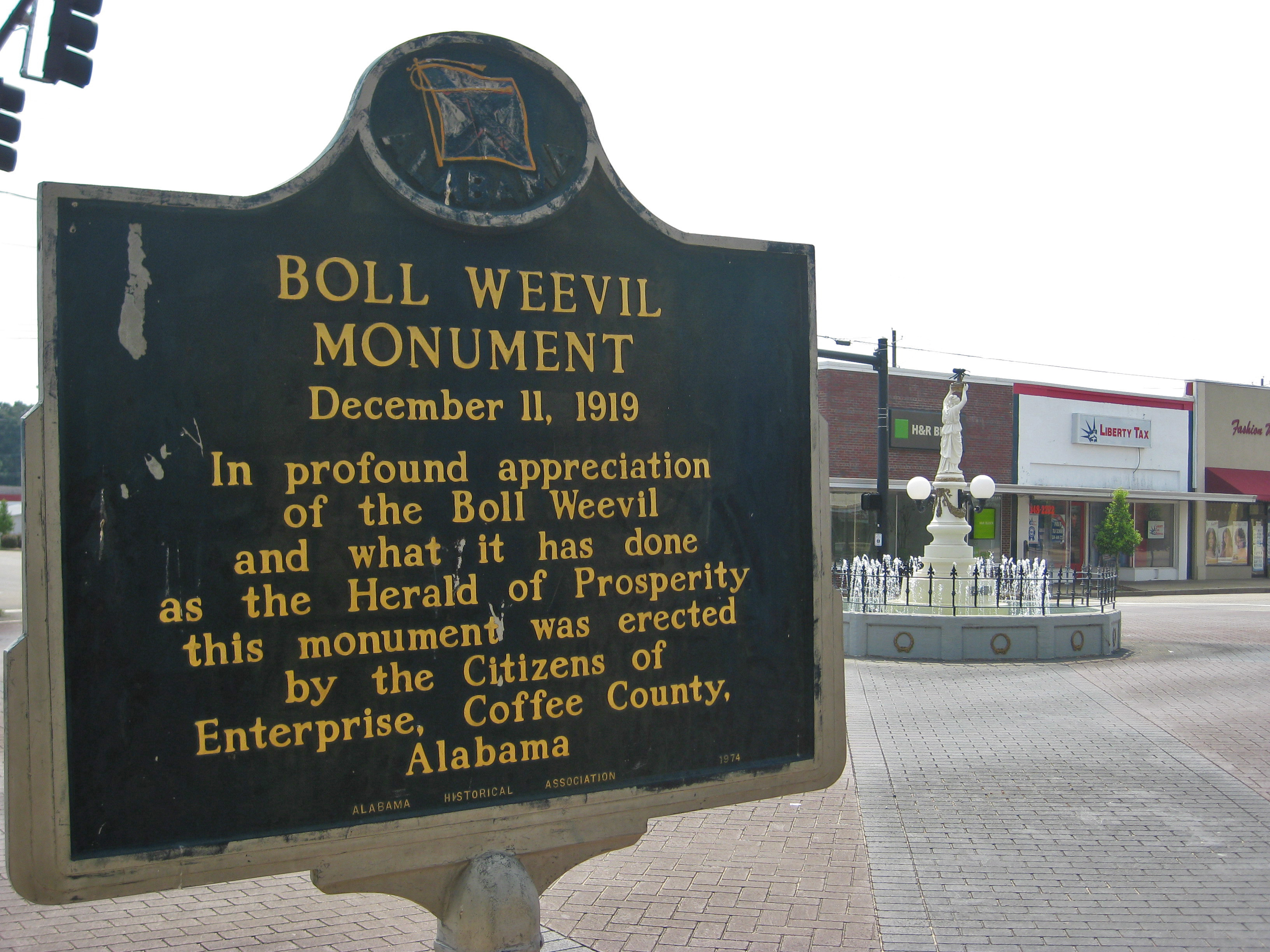 Alabama Historical Association marker for the Boll Weevil Monument in Enterprise, with the Boll Weevil Monument in the background to the right.